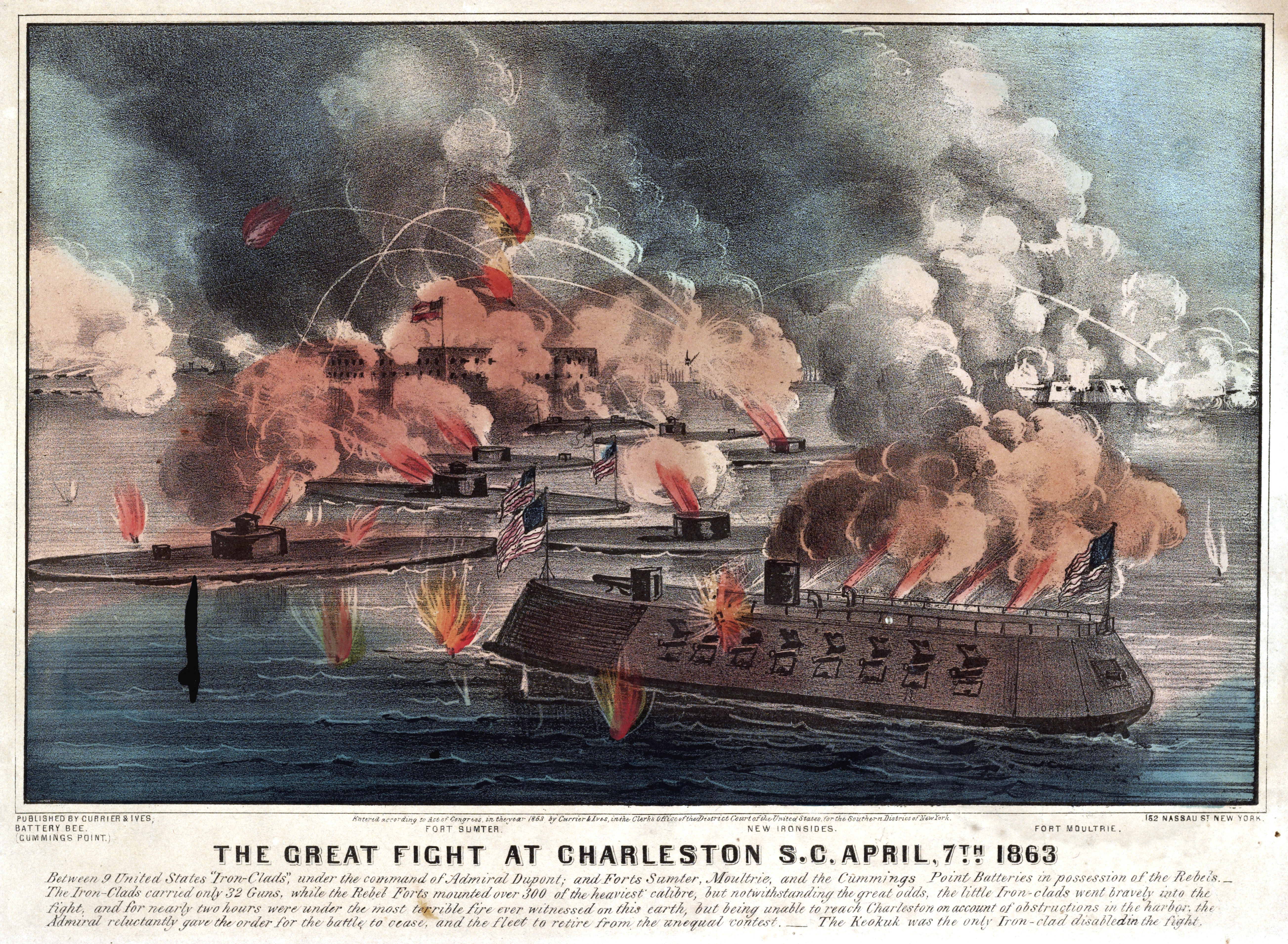 The great fight at Charleston S.C. April, 7th 1863 (a.k.a. First Battle of Charleston Harbor): between 9 United States "Iron-Clads," under the command of Admiral Dupont; and Forts Sumter, Moultrie, and the Cummings Point Batteries in possession of the rebels.Lithograph; hand-colored. Cropped and color-adjusted from Library of Congress original.